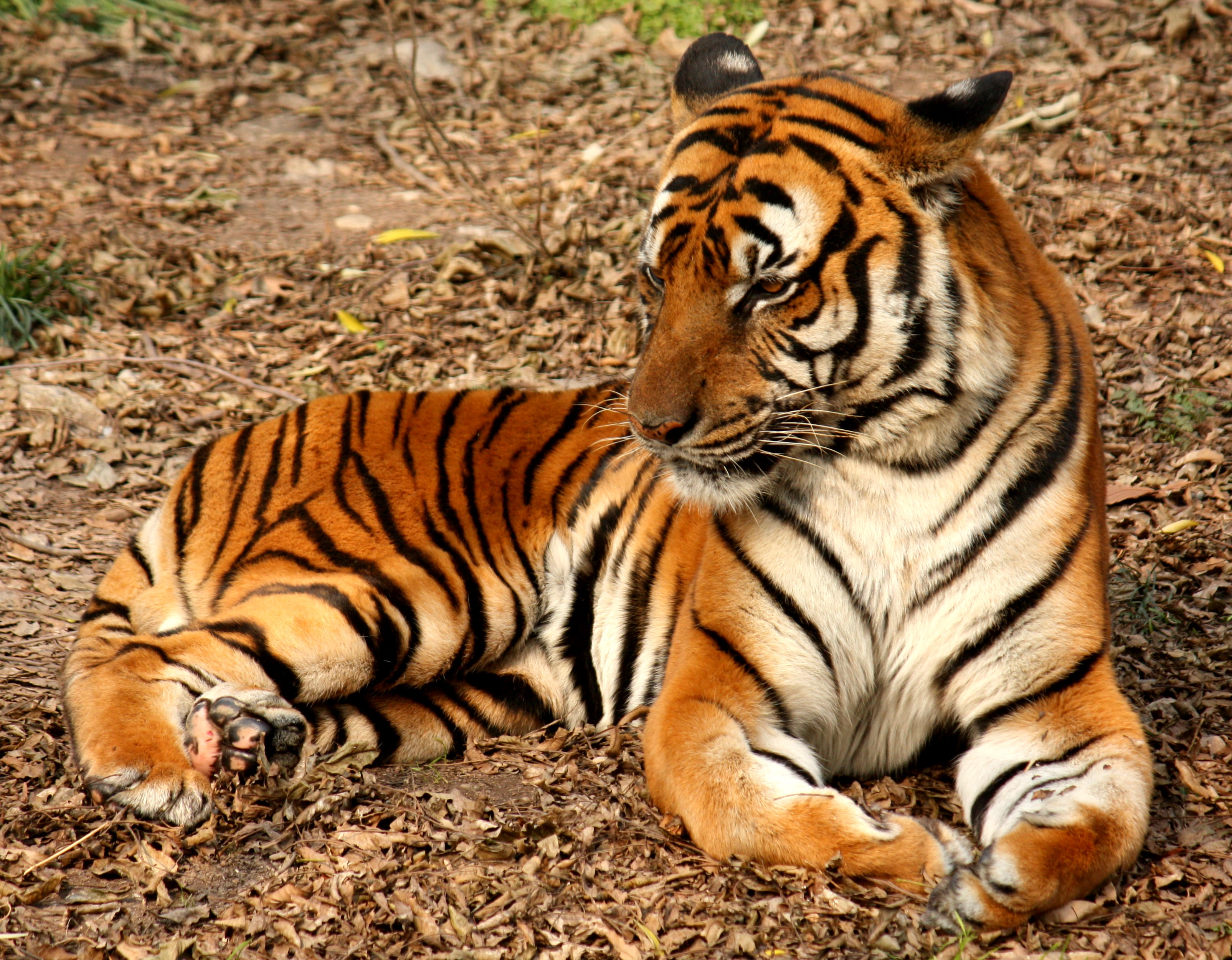 South Chinese Tiger (Panthera tigris amoyensis) in Shanghai Zoo